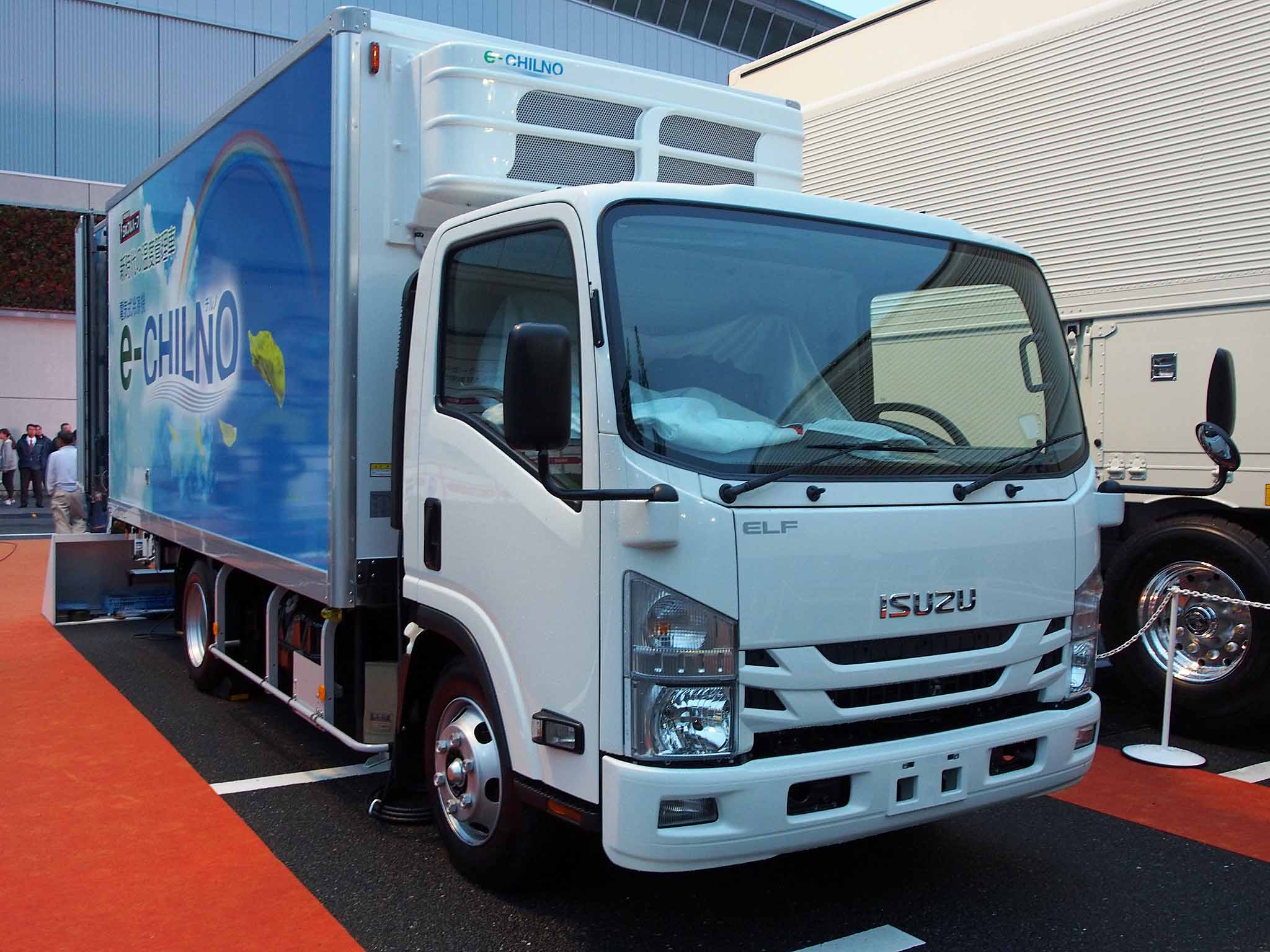 Isuzu ELF refrigerator van, displayed at Tokyo Motor Show 2015 Model: TPG-NPR85AN Manufacturer: Nippon Fruehauf